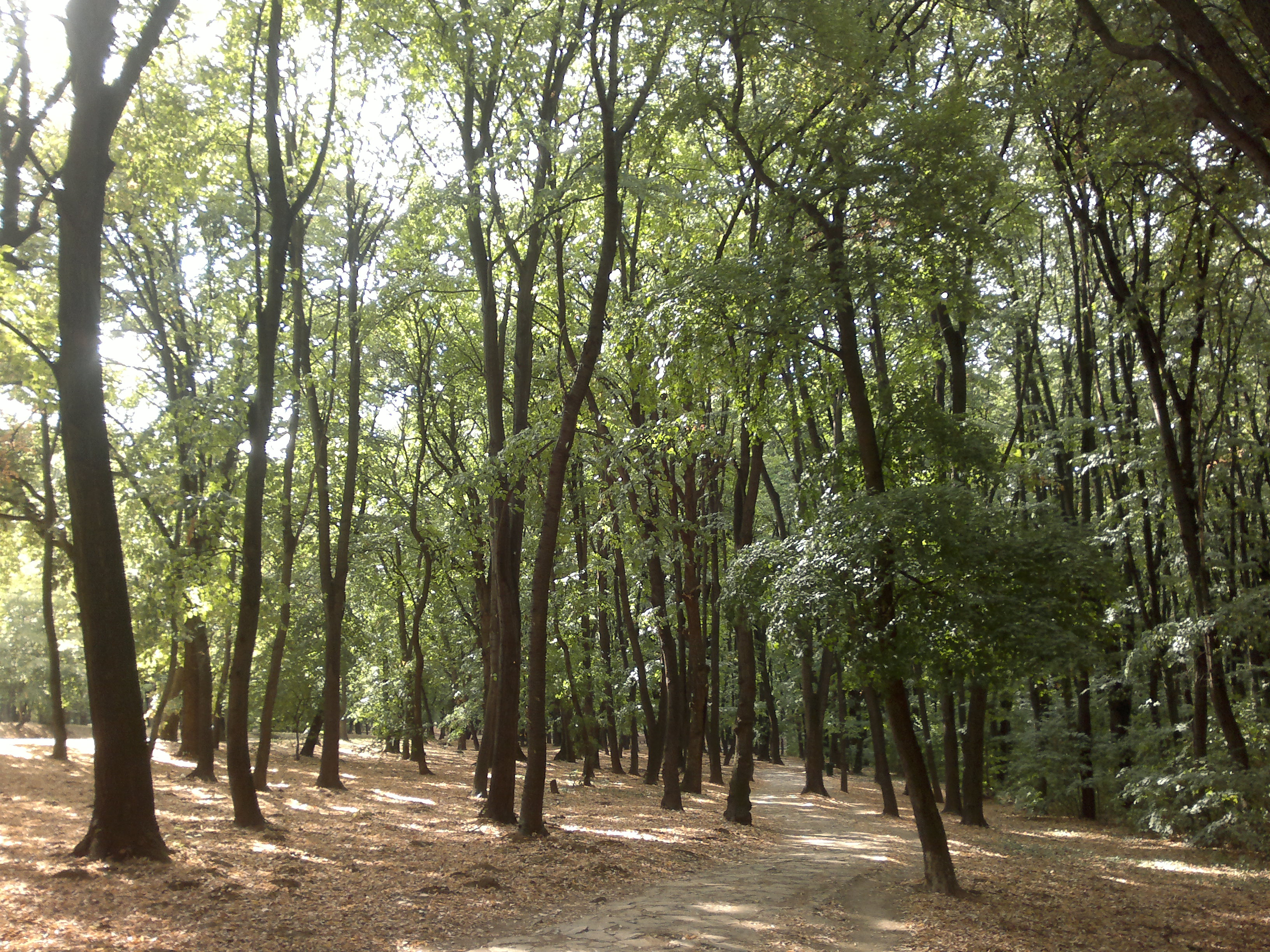 Kosutnjak, park in Belgrade